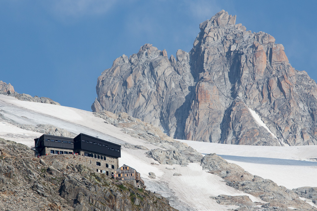 The Albert 1er shelter in the Mont Blanc mountain range, seen from a distance. The old shelter is visible as well as the modern one built in 2012.